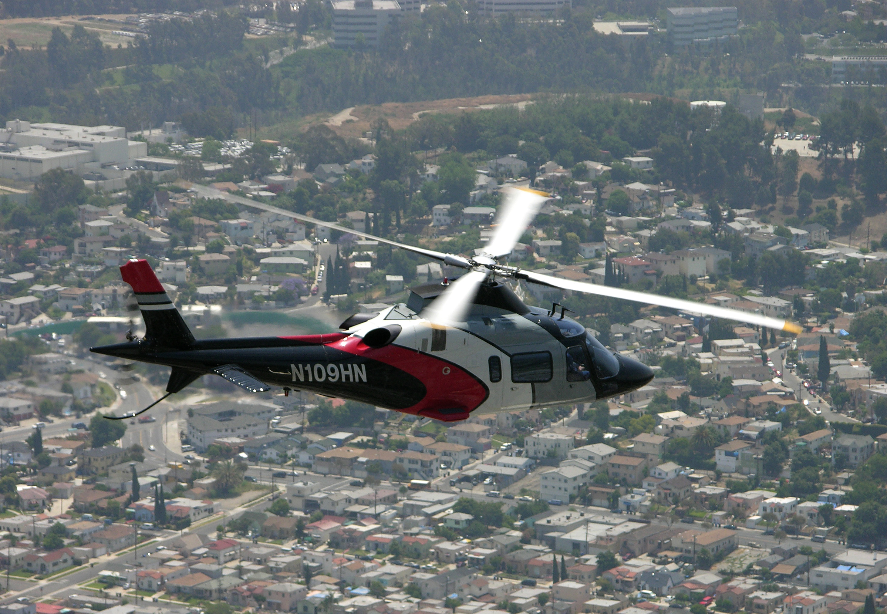 Helinet Agusta A-109 over Los Angeles, California